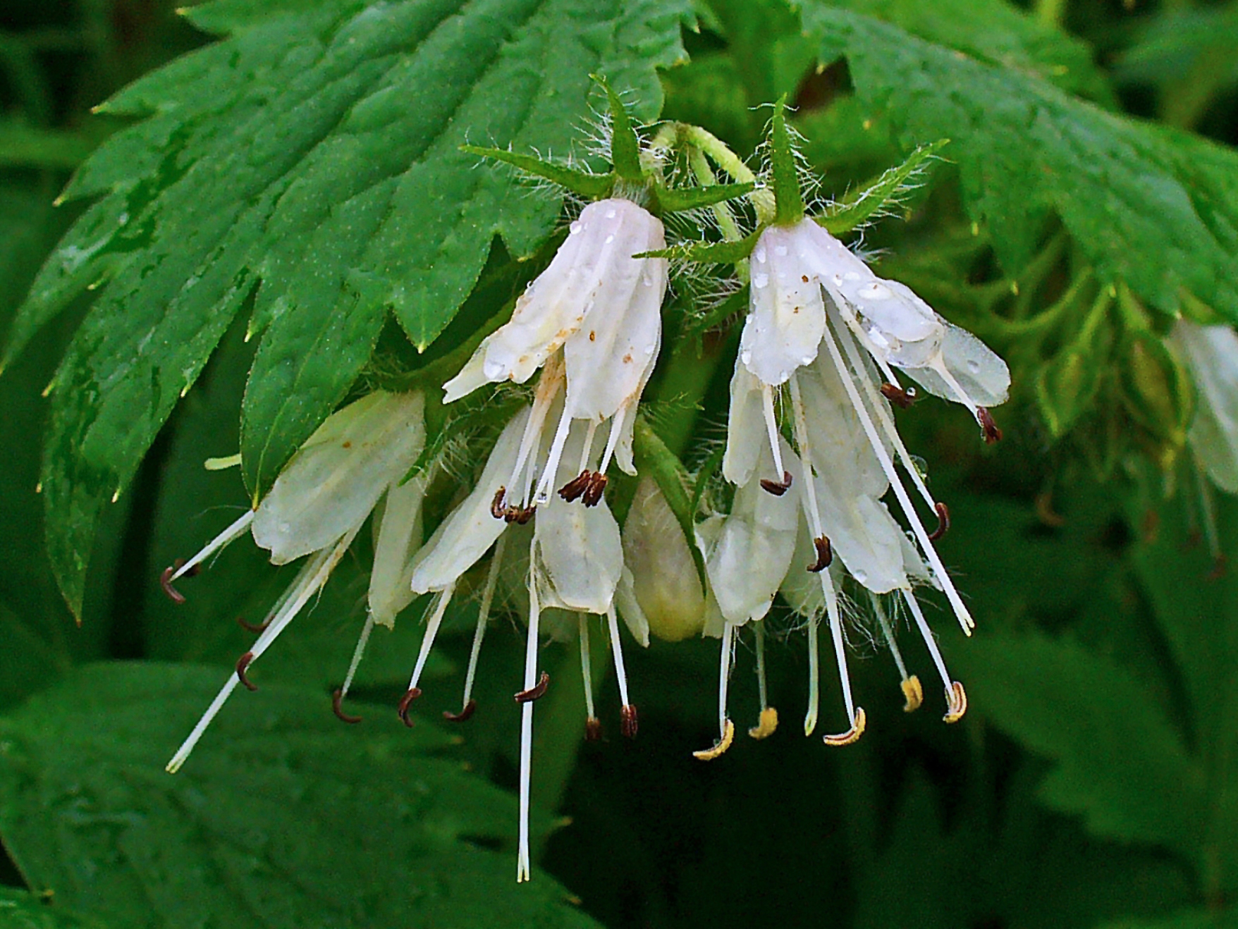 Hydrophyllum virginianum, Boraginaceae, Virginia Waterleaf, inflorescence. The plant is used in homeopathy as remedy: Hydrophyllum virginicum (Hydro-v.)